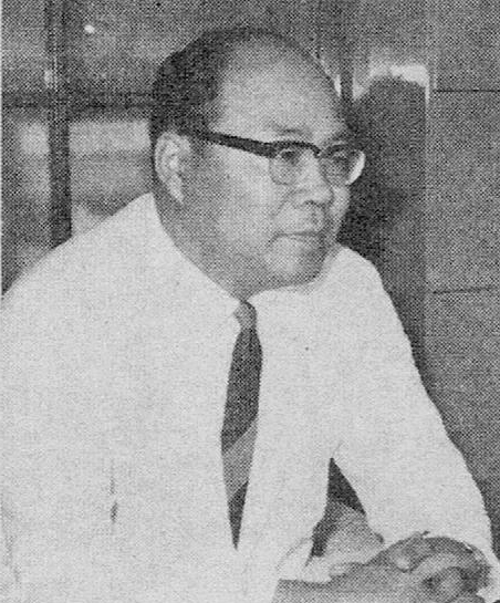 Kazuhiko Atsumi